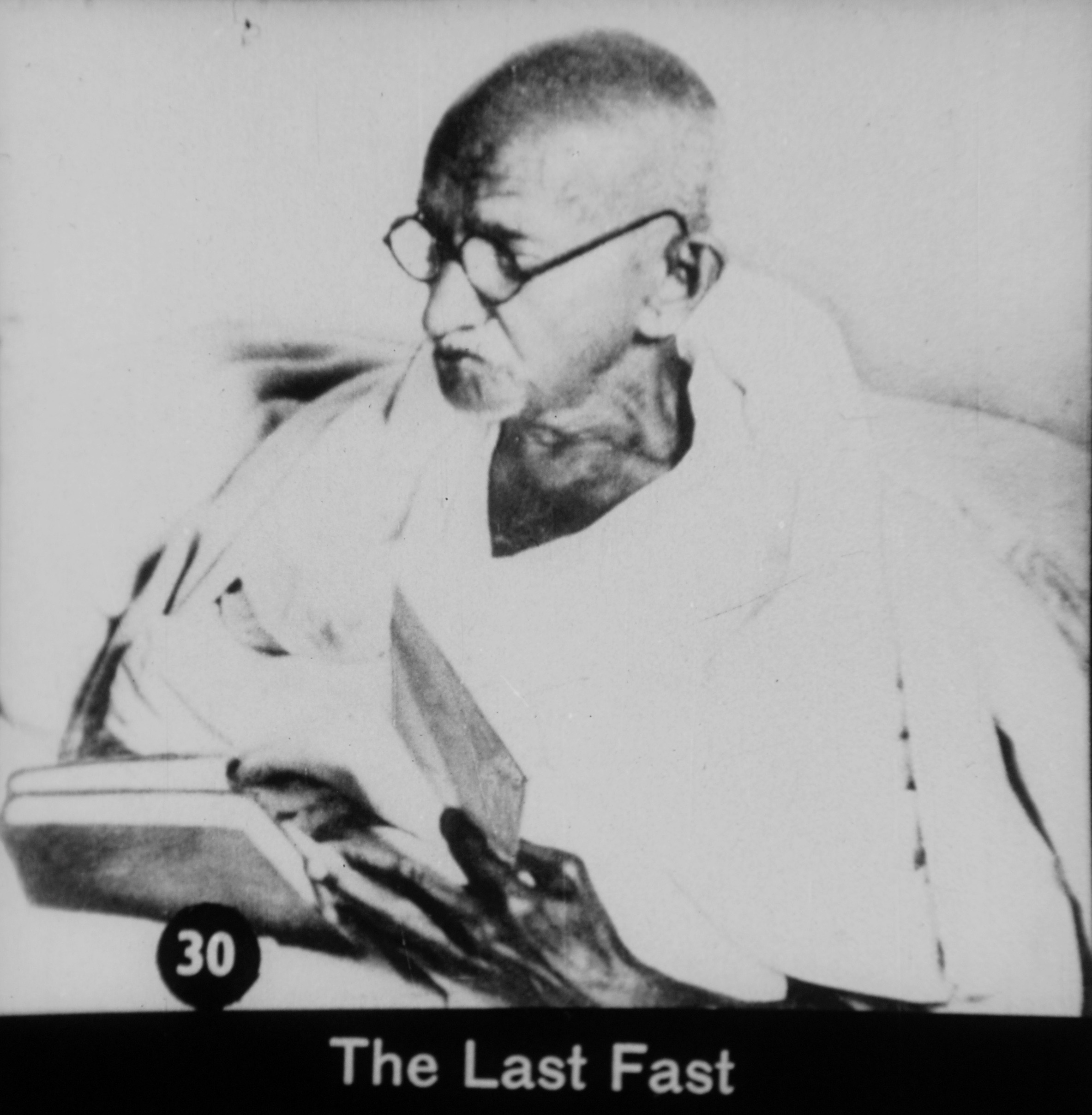 Gandhi fasting, Delhi, 13-18 January 1948.